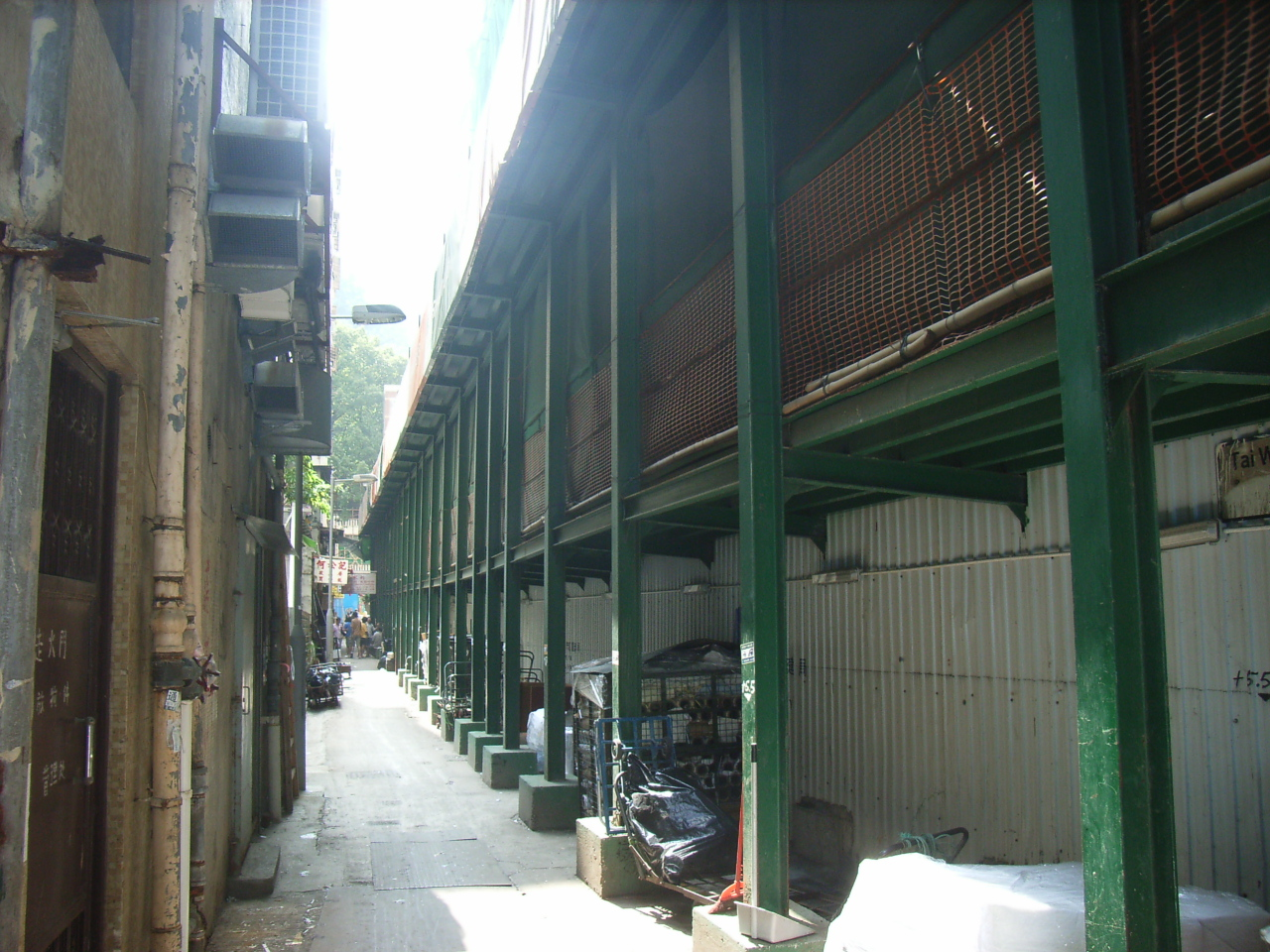 灣仔舊區街道 Wanchai old streets, Hong Kong. (A1 Wong East).